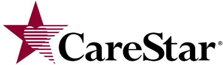 Current logo for CareStar